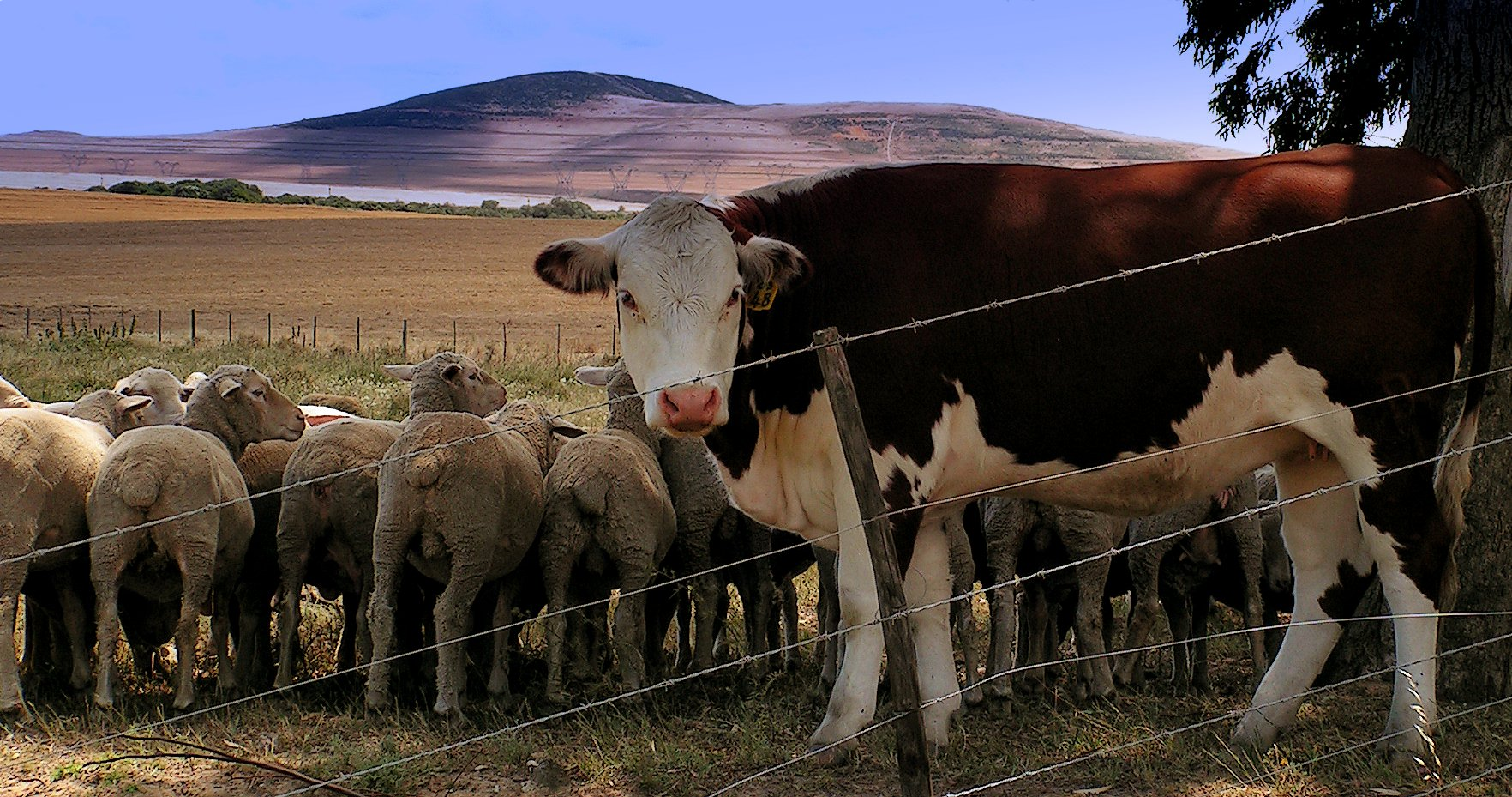 A cow and sheep pastured together in South Africa